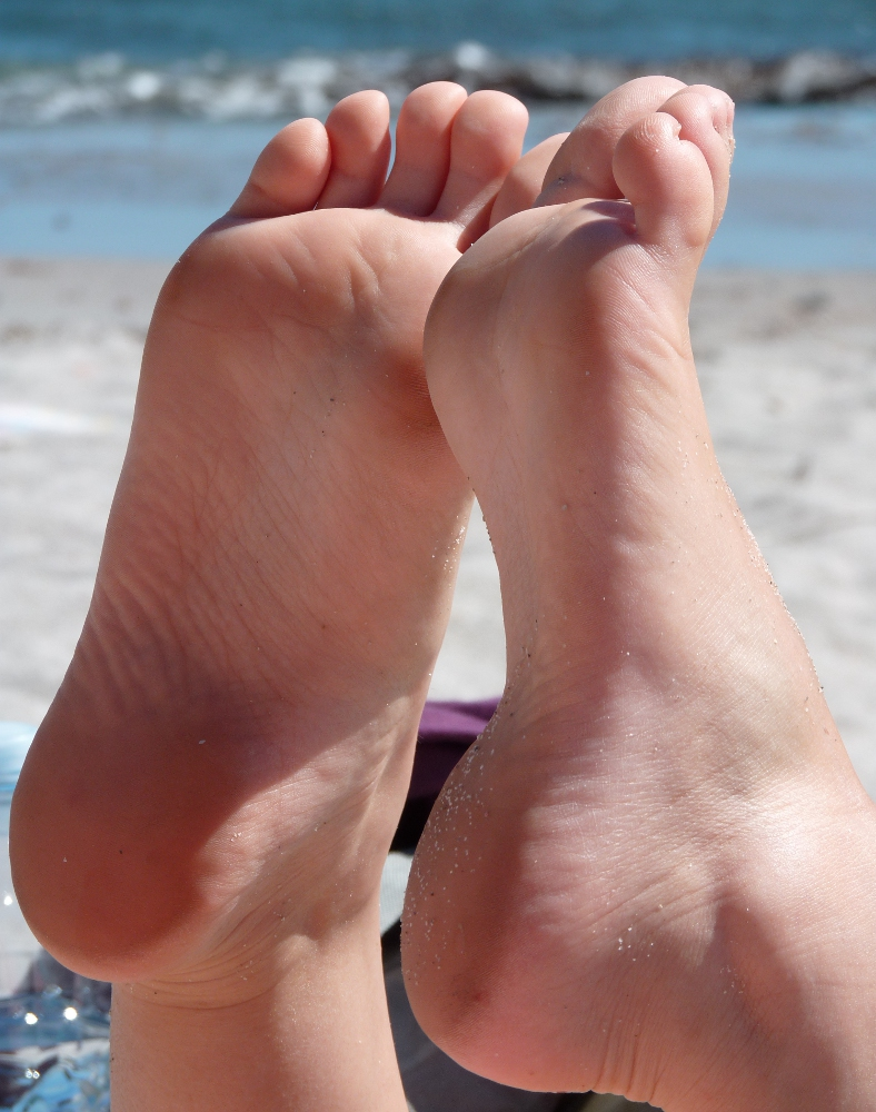 Bare soles soft